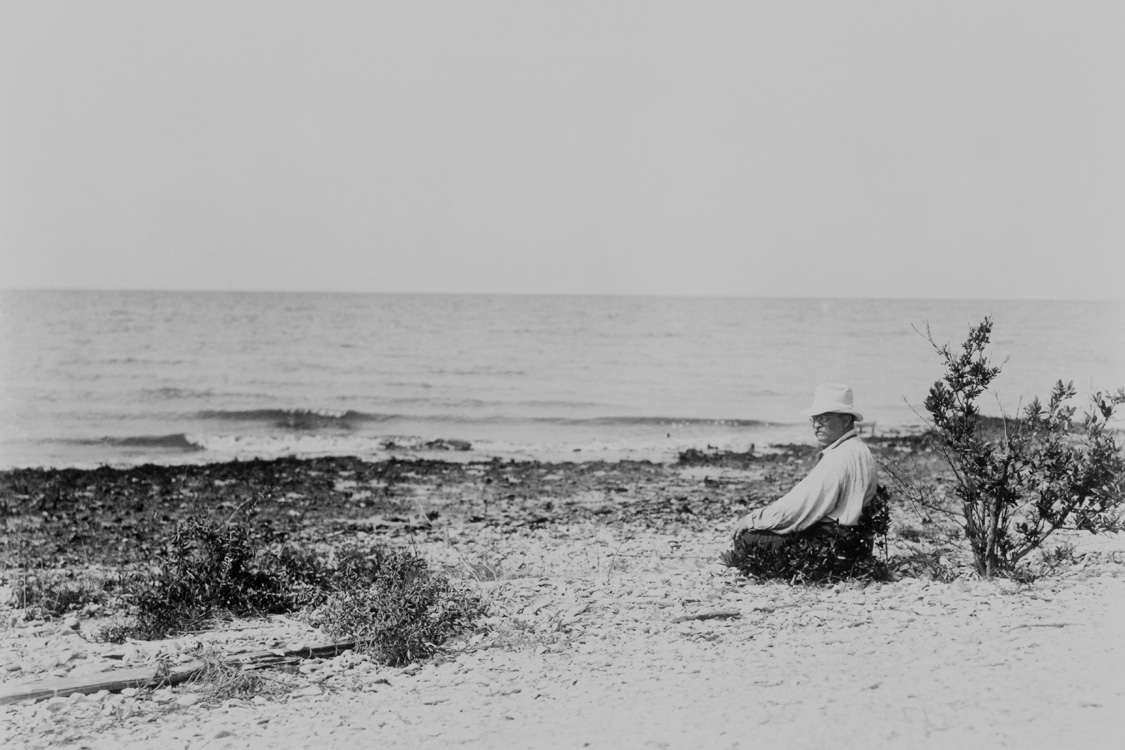 Title: Theodore Roosevelt at Breton NWR Alternative Title: (none) Creator: Library of Congress Source: WV-TR- Historic CD Publisher: U.S. Fish and Wildlife Service Contributor: NATIONAL CONSERVATION TRAINING CENTER-PUBLICATIONS AND TRAINING MATERIALS Language: EN - ENGLISH Rights: (public domain) Audience: (general) Subject: Refuge centennial, historic, Breton National Wildlife Refuge, Louisiana, Bird Island Description Abstract: Theodore Roosevelt (1858-1919) never made it to Florida’s Pelican Island – America’s first national wildlife refuge, which Roosevelt himself had established with a stroke of his pen in 1903, setting in motion the creation of what would become the world’s largest system of public lands managed for the benefit of wildlife. Six years after leaving the Presidency, however, Roosevelt did set foot on America’s second national wildlife – Breton National Wildlife Refuge, a string of islands in the Chandeleur chain in St. Bernard Parish, Louisiana, designated a refuge in 1904. By 1915, when Roosevelt visited, the region was still a mixture of private and state lands, and the embryonic Federal refuge; some of the low-lying Gulf of Mexico islets and sandbars since have disappeared entirely, victims of shifting tides and tropical storms. As recorded in one of his autobiographies, “A Book Lover’s Holidays in the Open,” Roosevelt tramped the shorelines and bird rookeries of Breton refuge, watched a flight of black skimmers, and contemplated the world, as he approached the final four years of his life, from this solitary perch here on Bird Island.